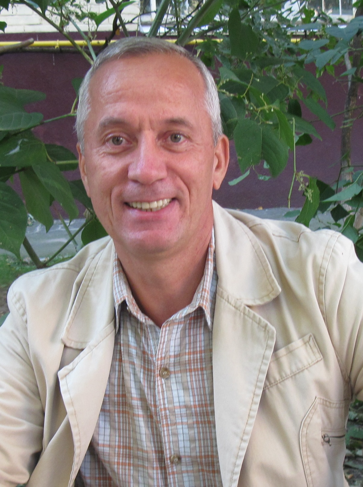 Vladimir Melnikov